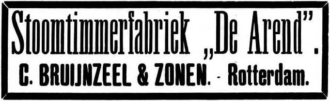 Advertisement joinery works "De Arend", C. Bruijnzeel & Zonen. - Rotterdam.